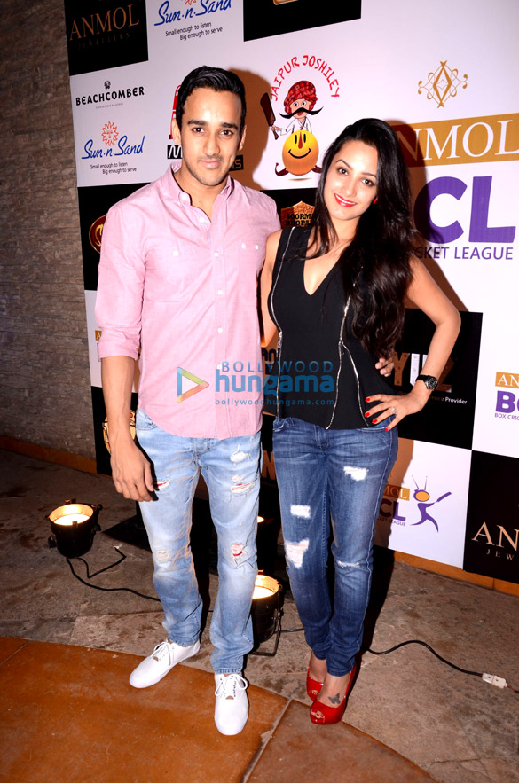 Reddy and Hassanandani at the success party of Box Cricket League